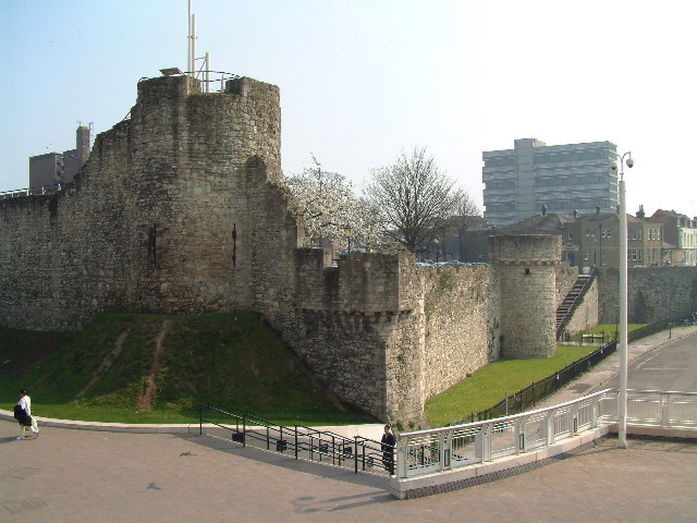 Southampton City Wall. The old quay side